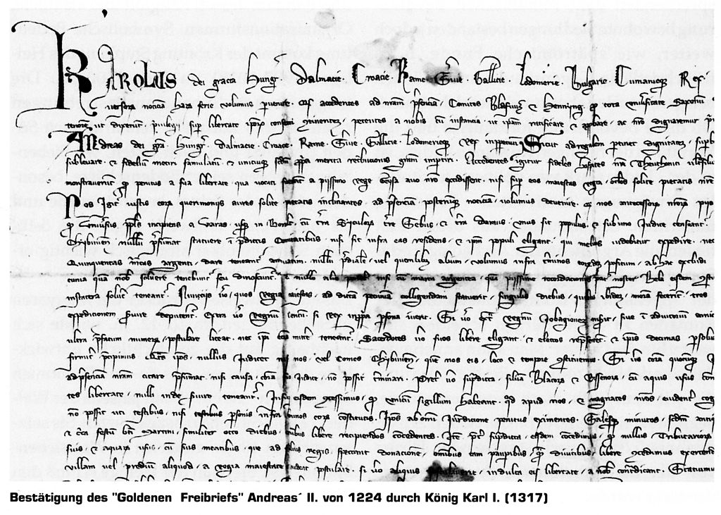 Acknowledgment of the "Golden Charter" of the Hungarian king Andrew II. by king Charles I. of Hungary in 1317 (facsimile)